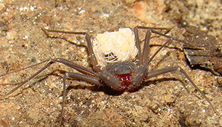 Charinus vulgaris is a species from the Brazilian Amazonia, in the state of Rondônia.